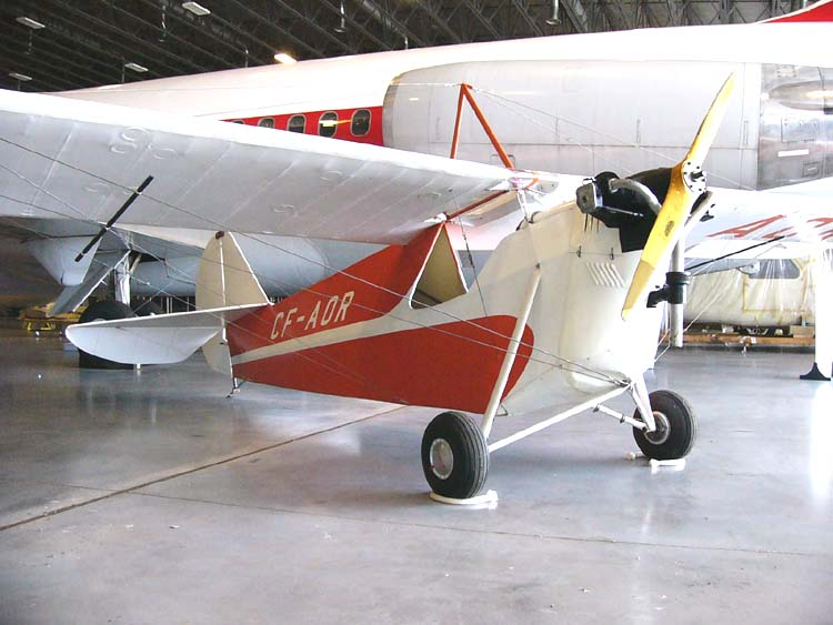 Aeronca C-2 registered CF-AOR in the Canada Aviation Museum, Rockcliffe (Ottawa) Ontario, 09 October 2006